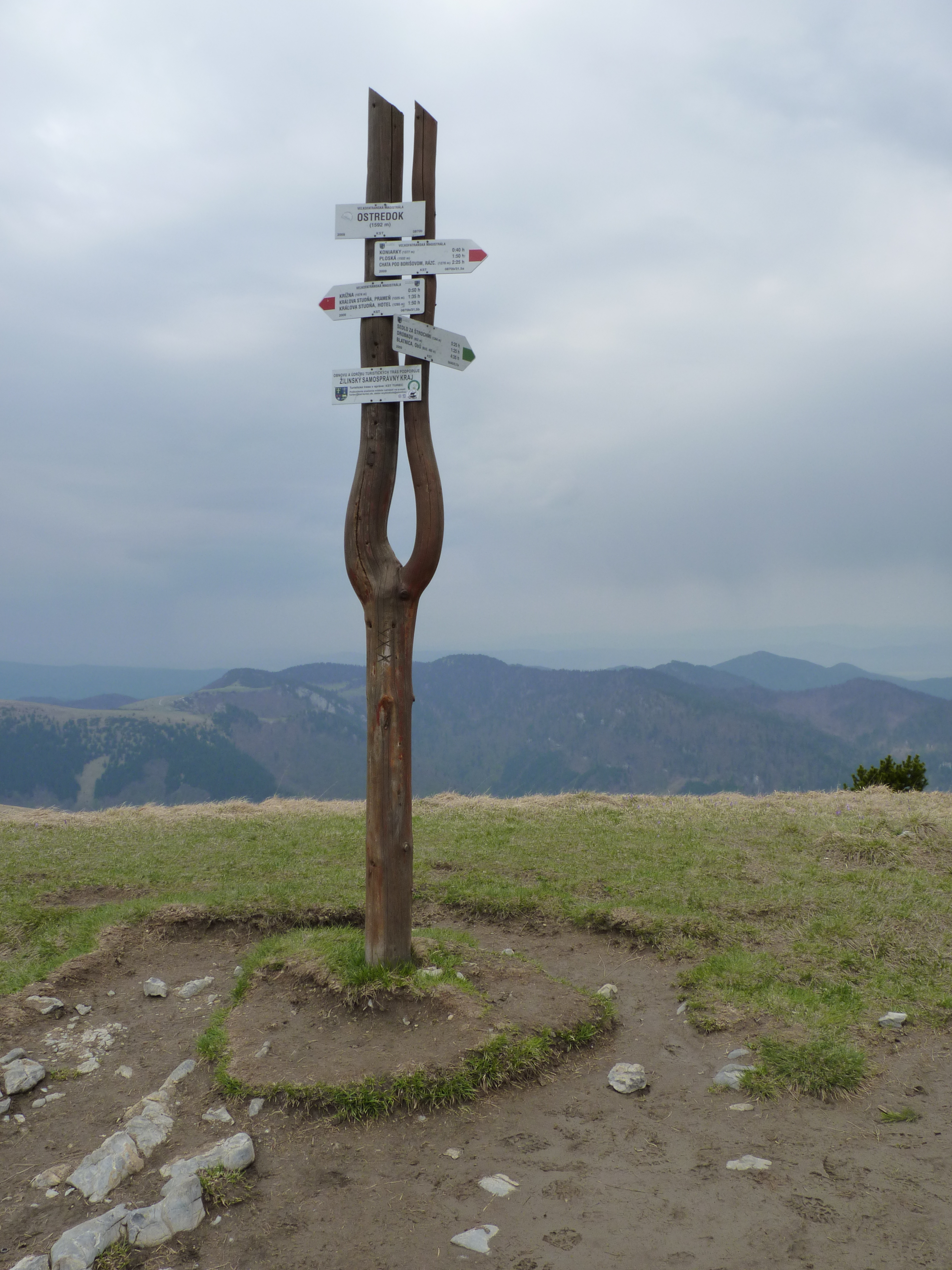 Ostredok. Great Fatra, Slovakia